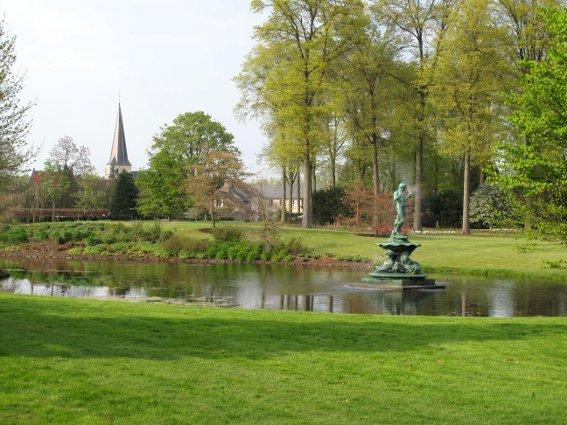 Arboretum Wespelaar, België.